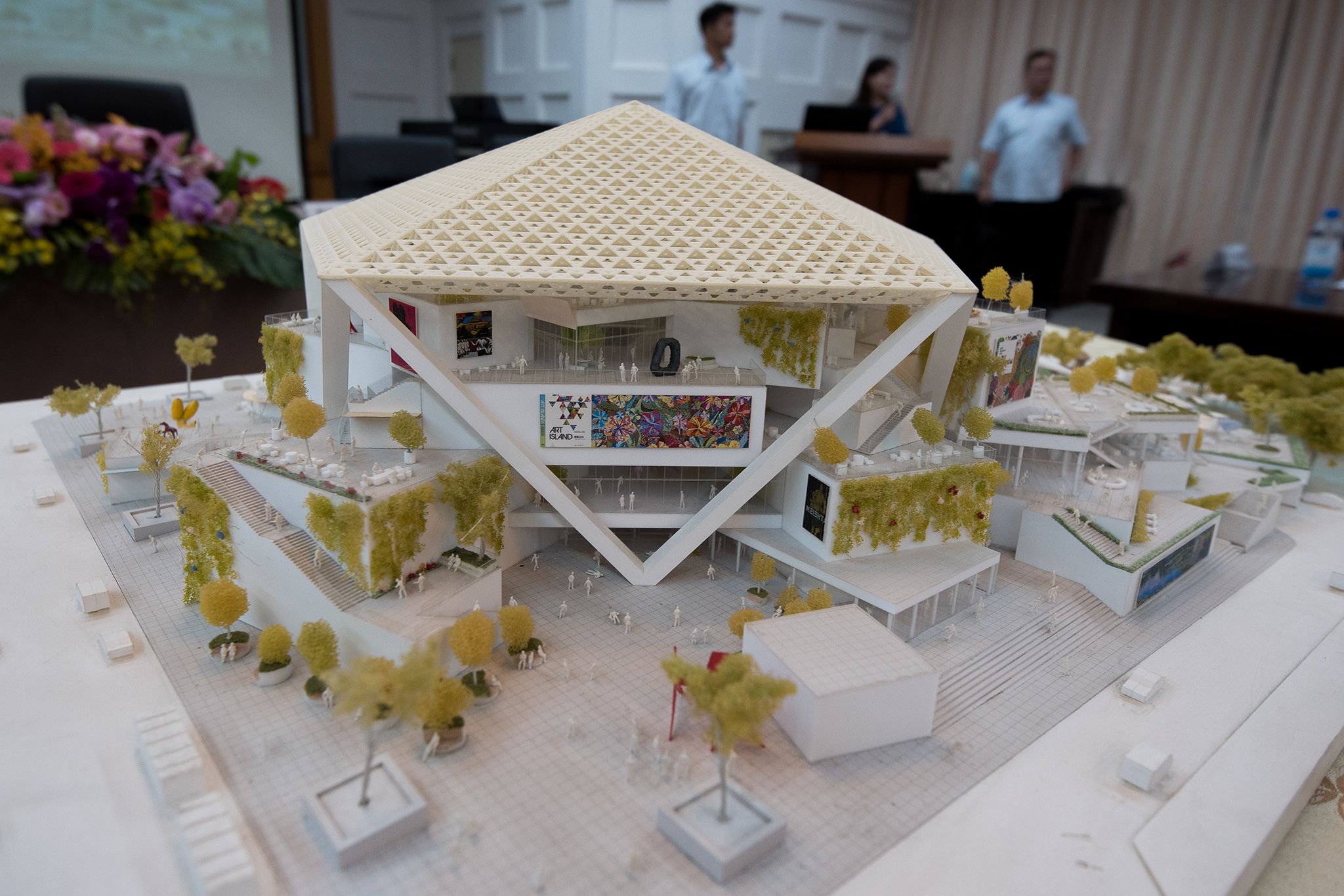 授權方式及範圍：中華民國總統府│政府網站資料開放宣告 Authorization Method & Scope: Office of the President, Republic of China (Taiwan) | Government Website Open Information Announcement